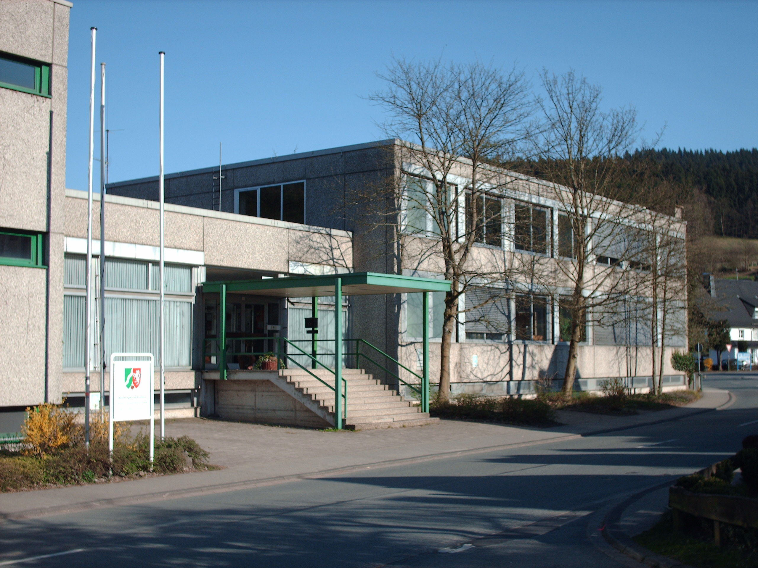 Department of Fishery NRW in Albaum, Kirchhundem, Germany check usage